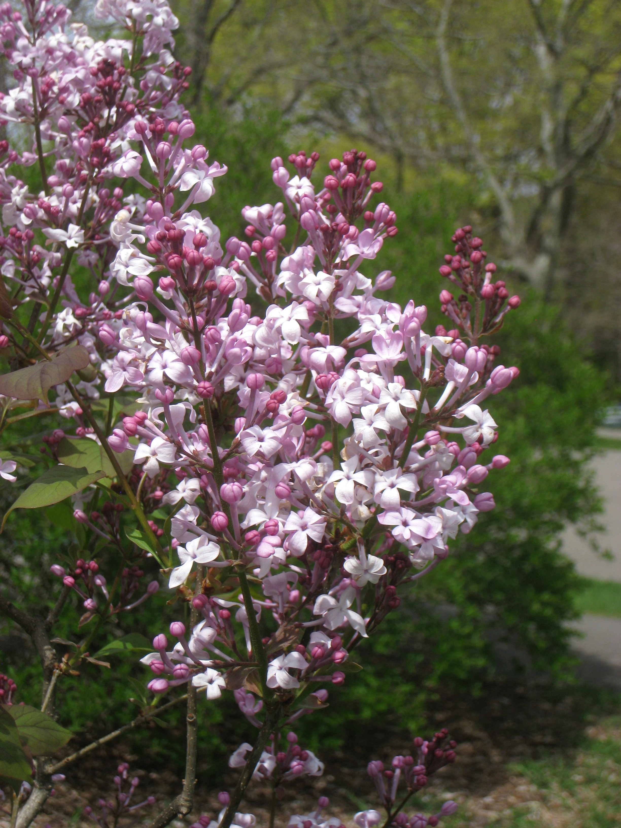 Syringa oblata ssp. dilatata, Arnold Arboretum, Jamaica Plain, Boston, Massachusetts, USA.